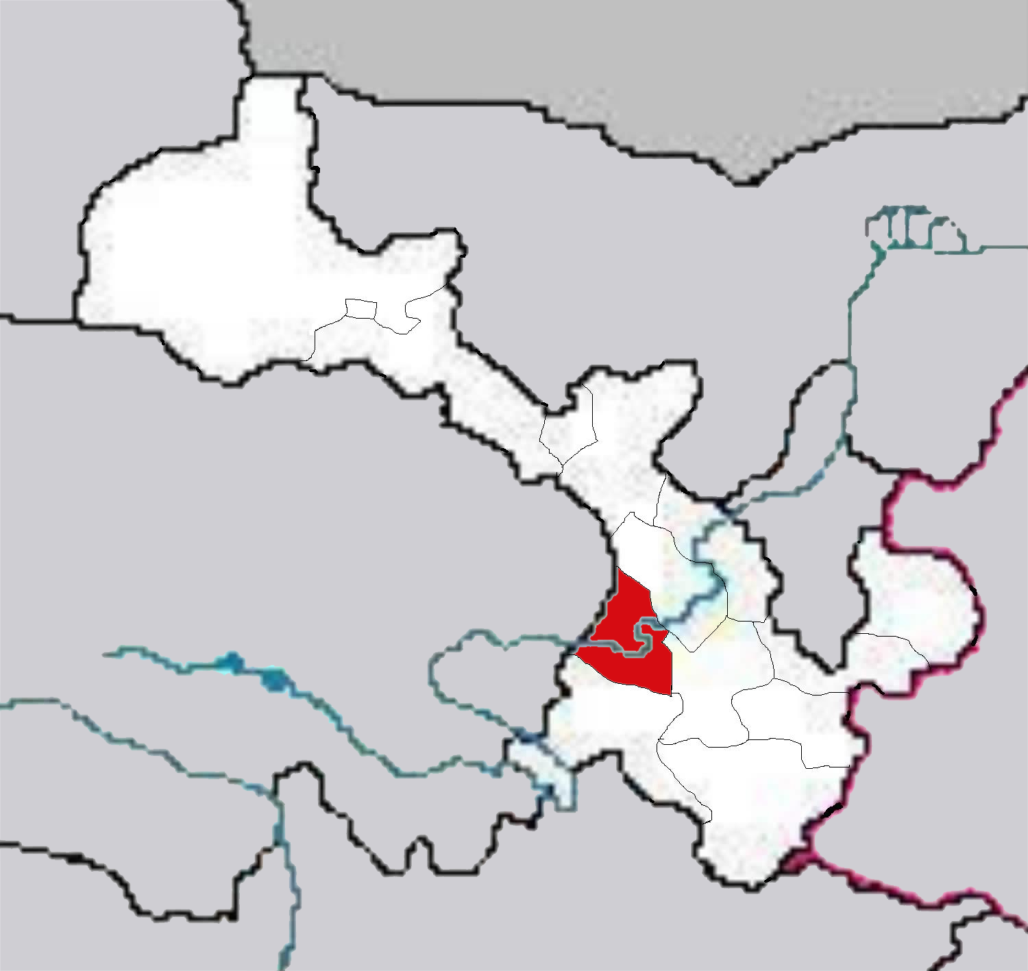 location of Linxia within Gansu